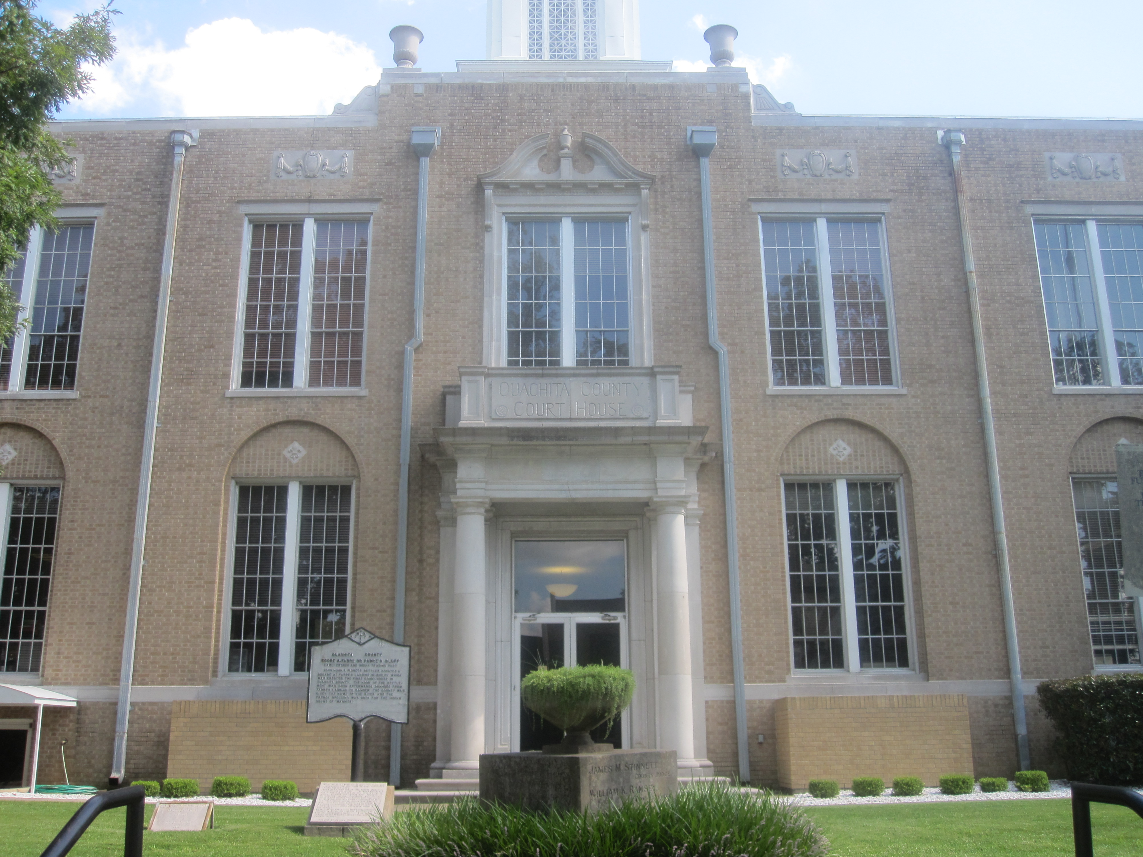 Ouachita County, AR, Courthouse